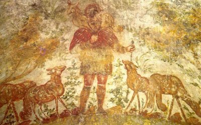 Alciato's Book of Emblems The Memorial Web Edition in Latin and English Andrea Alciato's Emblematum liber or Book of Emblems had enormous influence and popularity in the 16th and 17th centuries. It is a collection of 212 Latin emblem poems, each consisting of a motto (a proverb or other short enigmatic expression), a picture, and an epigrammatic text. Alciato's book was first published in 1531, and was expanded in various editions during the author's lifetime. It began a craze for emblem poetry that lasted for several centuries. We use the Latin text and images from an important edition of 1621 and we give a translation into English.